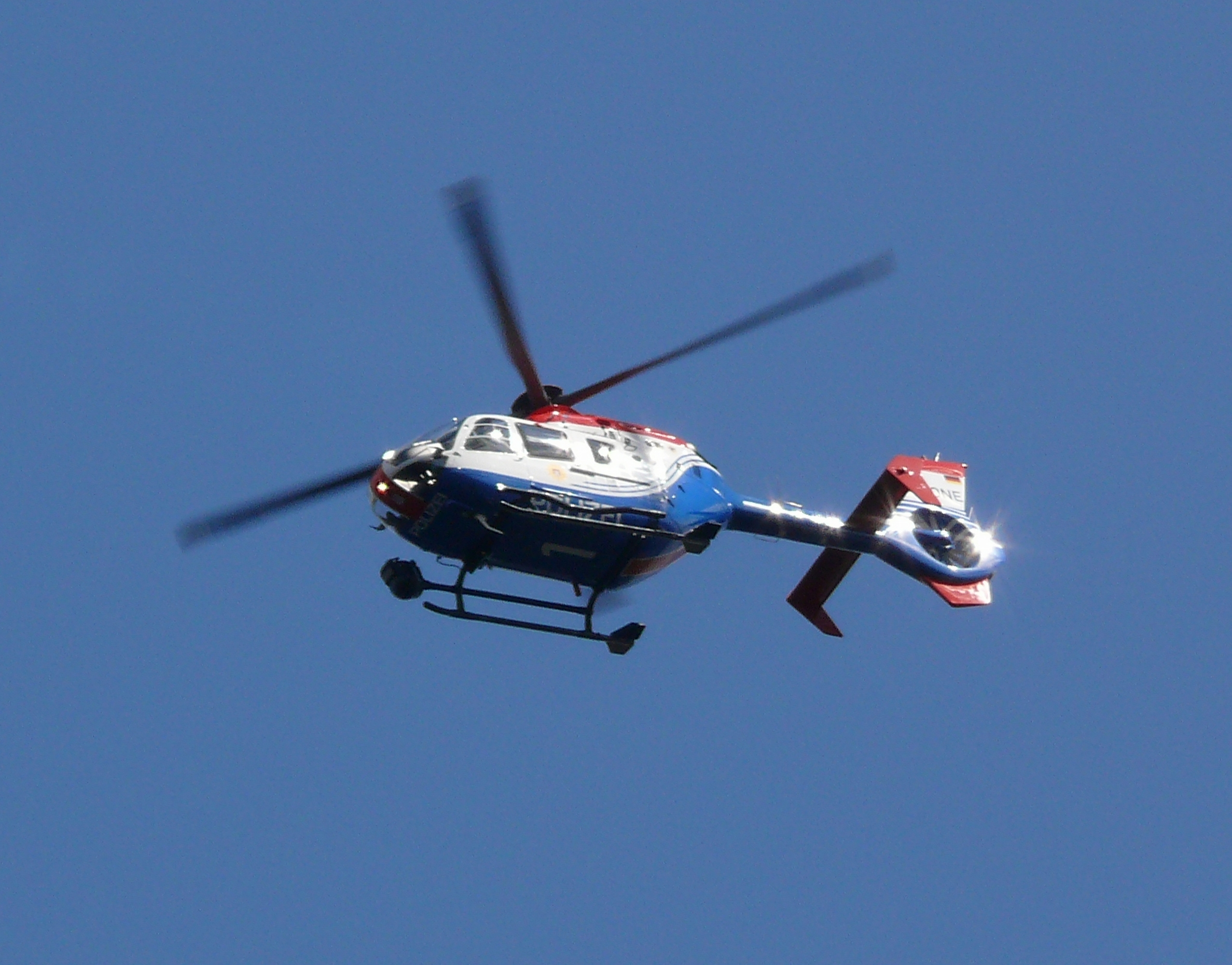 Police Helicopter Libelle 1, Eurocopter 135, Hamburg